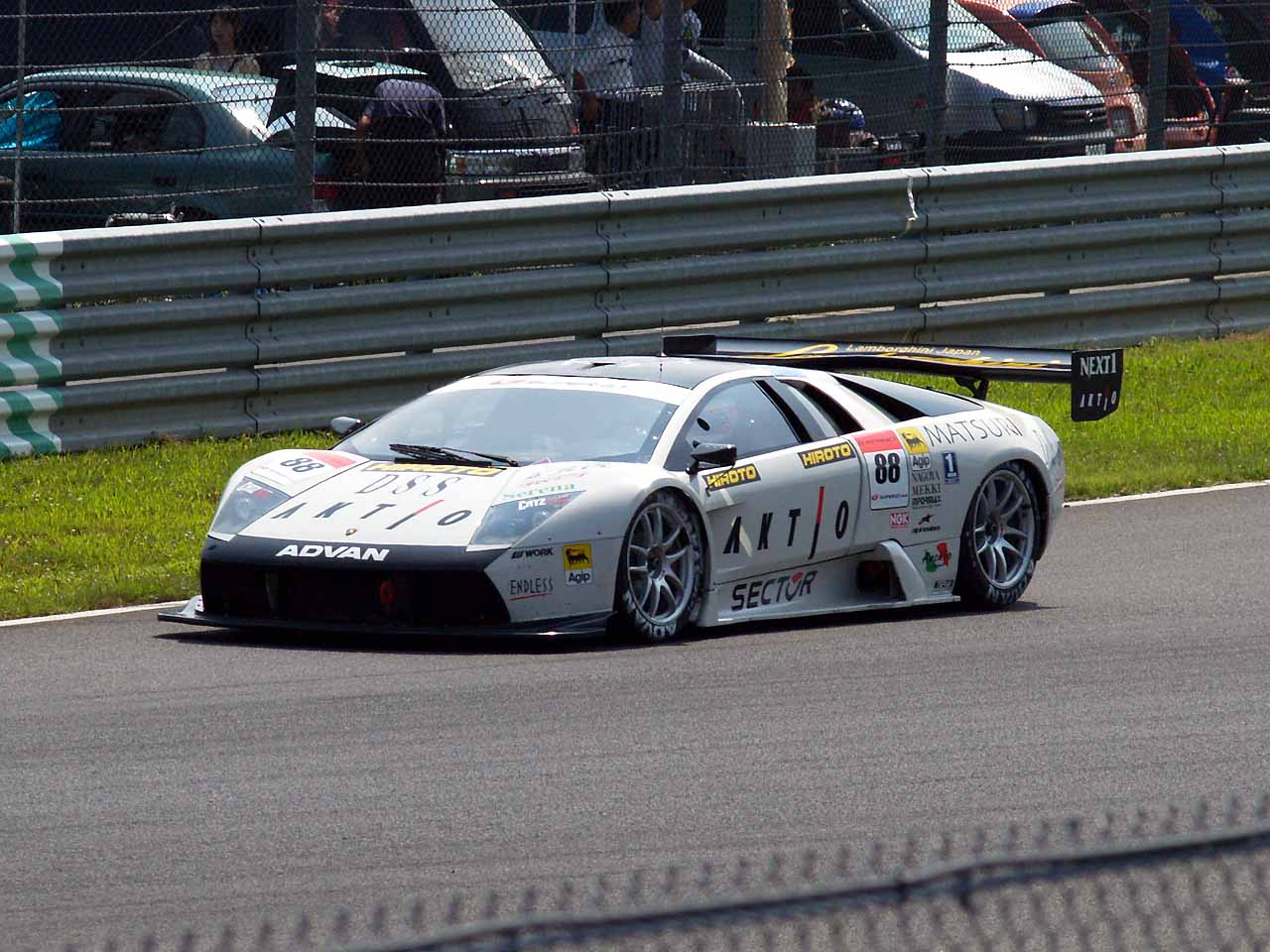 Lamborghini Murciélago RG-1 in Super GT Championship. Team: Japan Lamborghini Owner's Club (JLOC) Driver: Koji Yamanishi and WADA-Q Place: Twin Ring Motegi: Tochigi, Japan